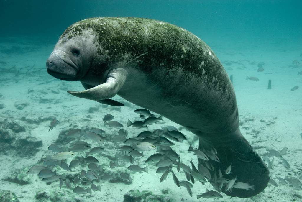 Photo credit: Keith Ramos Manatee resting at Three Sisters Springs (Crystal River NWR) while shading over a school of mangrove snappers. The Crystal River National Wildlife Refuge, was established in 1983 specifically for the protection of the endangered West Indian Manatee. This unique refuge preserves the last unspoiled and undeveloped habitat in Kings Bay, which forms the headwaters of the Crystal River. The refuge preserves the warm water spring havens, which provide critical habitat for the manatee populations that migrate here each winter. Wildlife Refuge, was established in 1983 specifically for the protection of the endangered West Indian Manatee. This unique refuge preserves the last unspoiled and undeveloped habitat in Kings Bay, which forms the headwaters of the Crystal River. The refuge preserves the warm water spring havens, which provide critical habitat for the manatee populations that migrate here each winter.